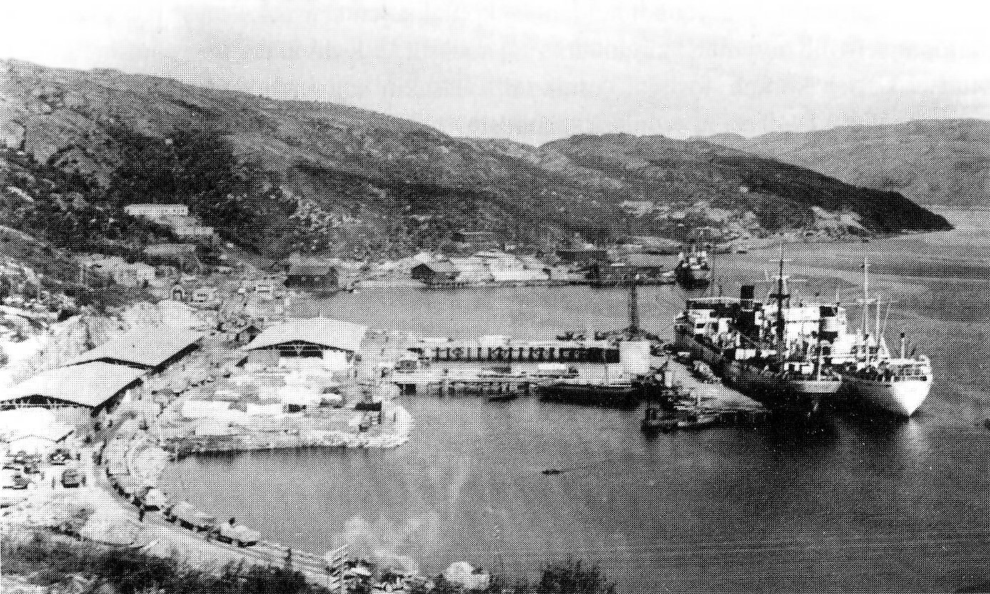 Finnish Liinahamari harbour during Interim Peace 1940–1941. During that time Liinahamari was the only harbour in Finland with access to oceans.